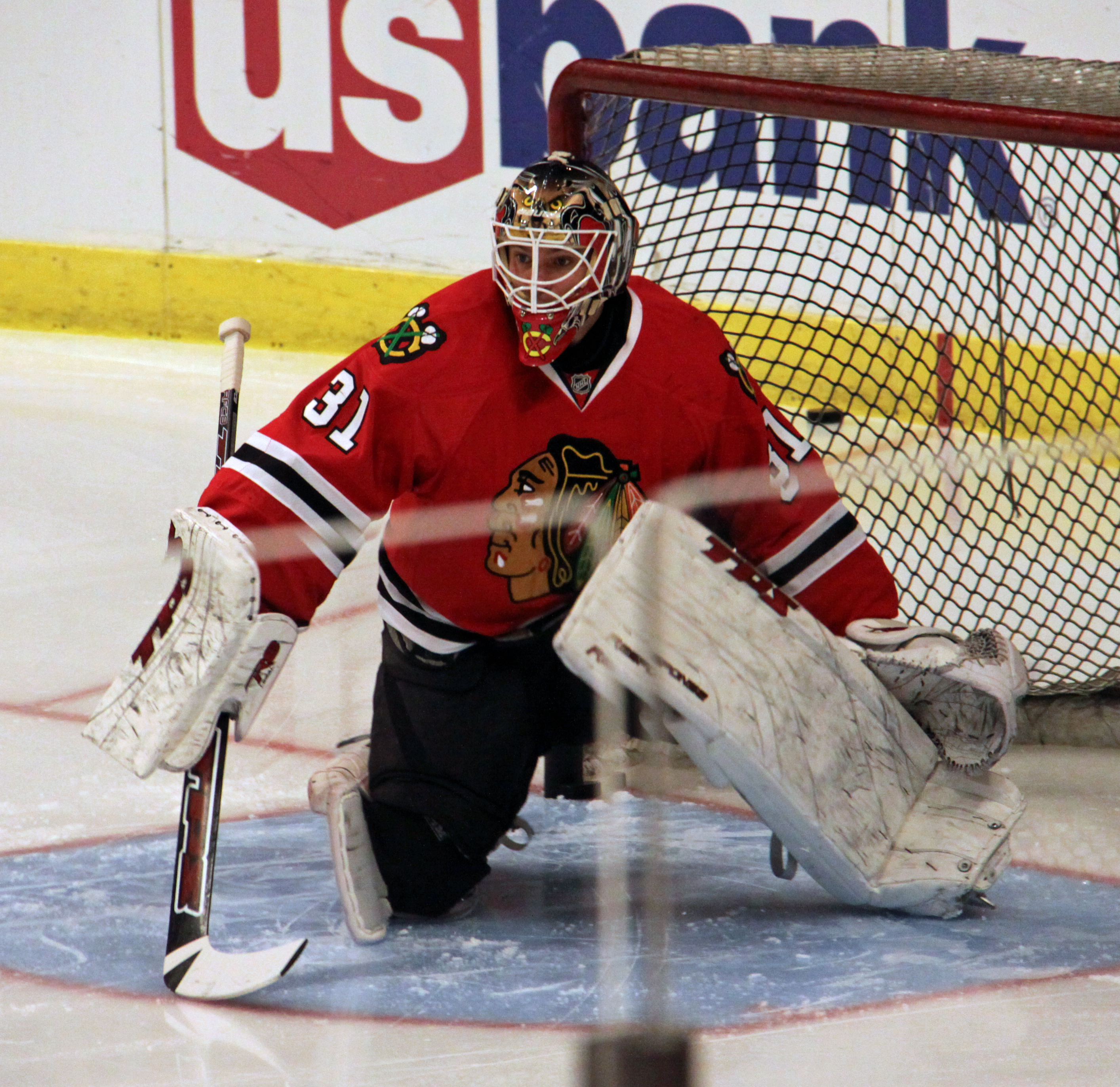 Antti Niemi in goal for the Chicago Blackhawks at the United Center, Chicago - April 11, 2010